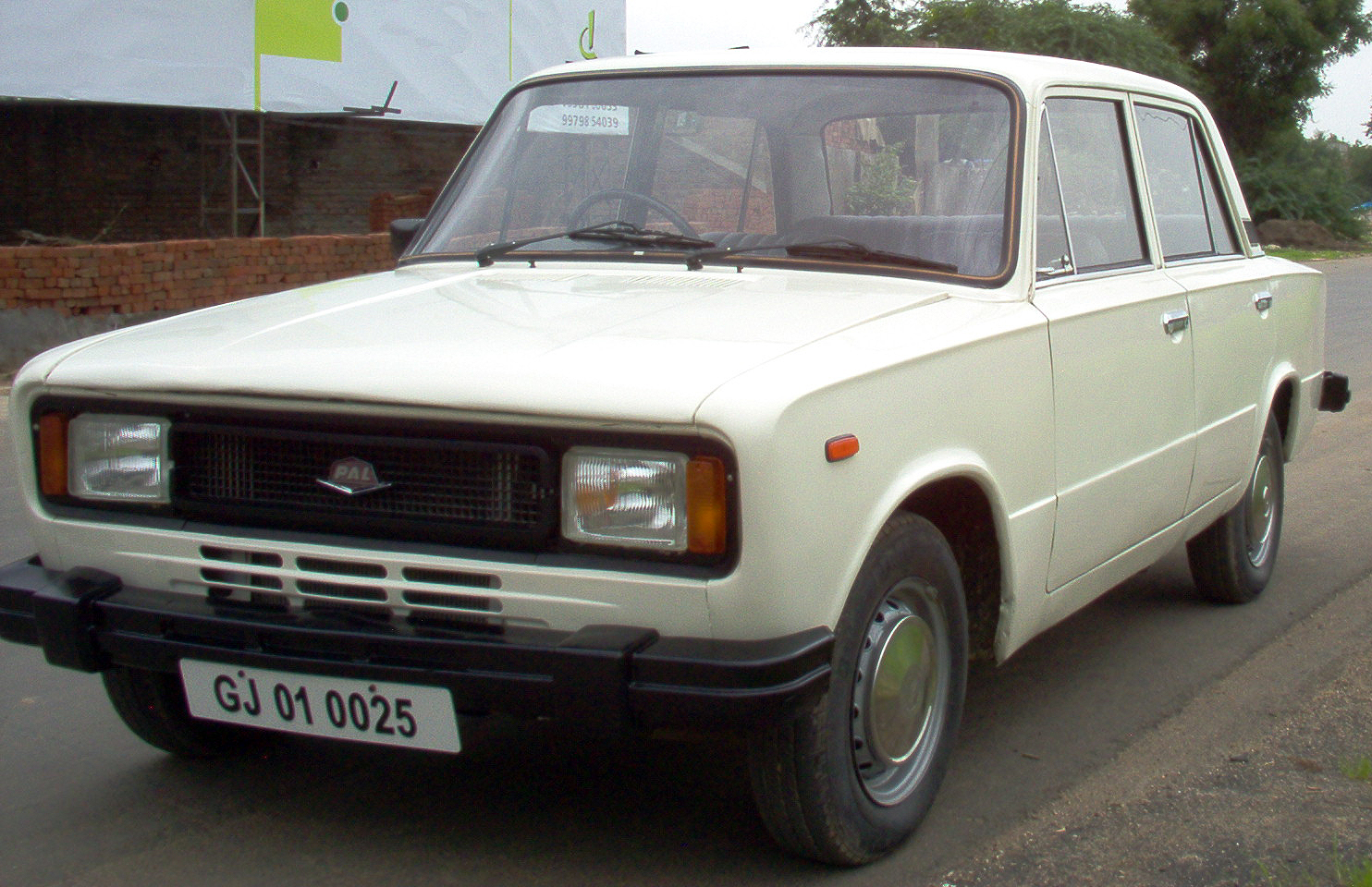 This image was copied from en. The original description was: This is a 1989 Premier 118NE. Manufactured by Premier Auotomobiles Ltd. from 1986 to 1997 based on the 1967 Fiat 124 saloon.